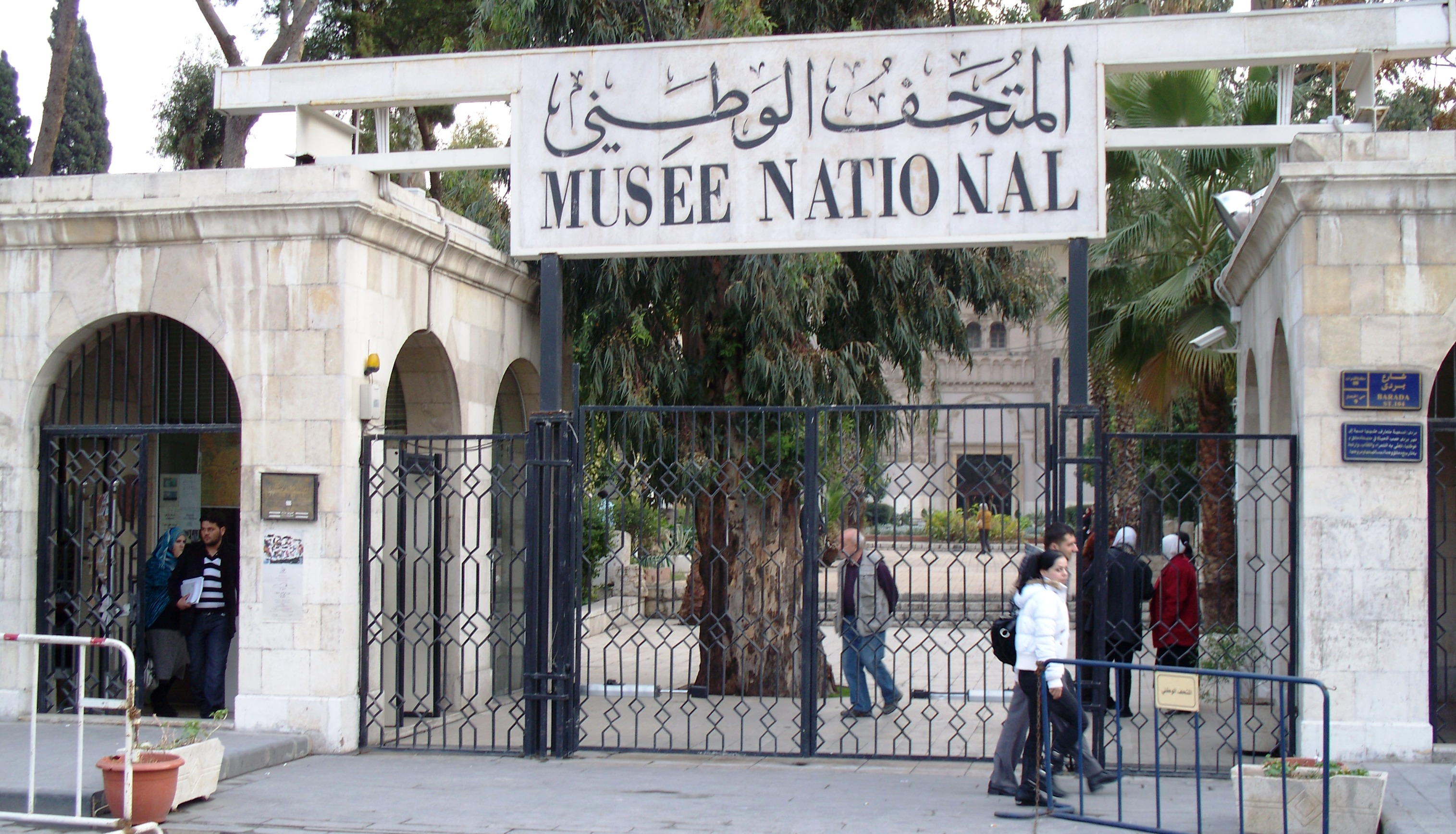 Entrance of the Damascus National Museum.